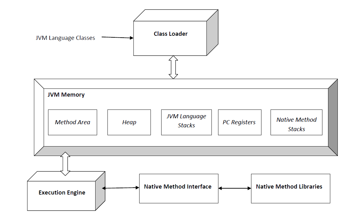 Java Virtual Machine Java 7 Specification base